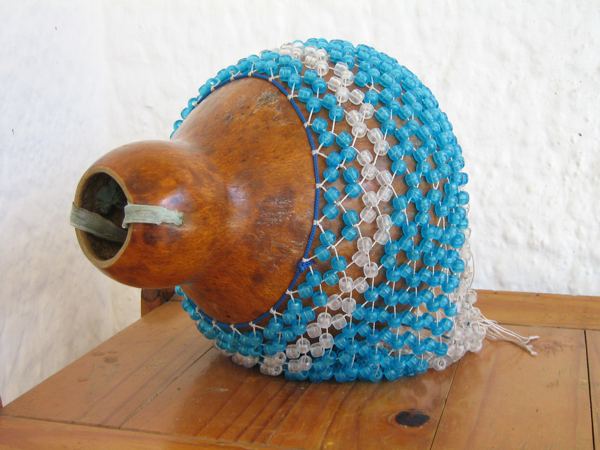 Abê, also called agbê or afoxê, Brazilian instrument, mostly used in Afro-Brazilian music. This particular instrument was made by my girlfriend.